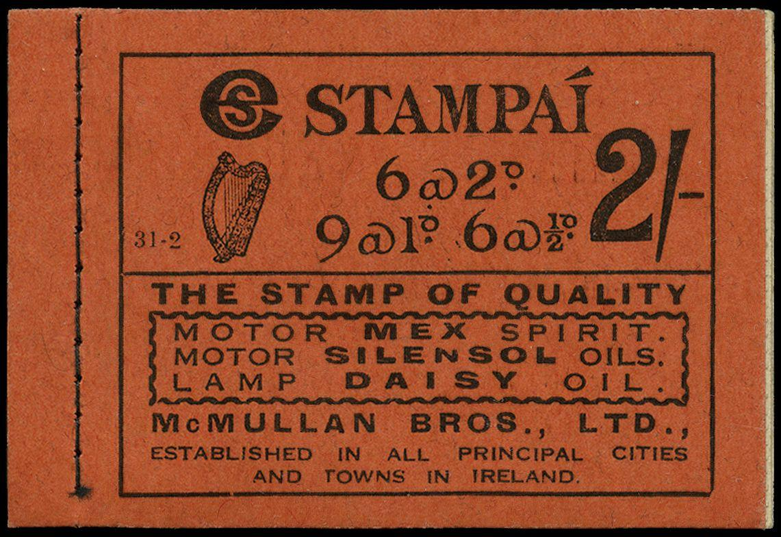 2 shillings stamp booklet issued by the Irish Post Office in 1931 with McMullen Bros advertisement - edition 31-2